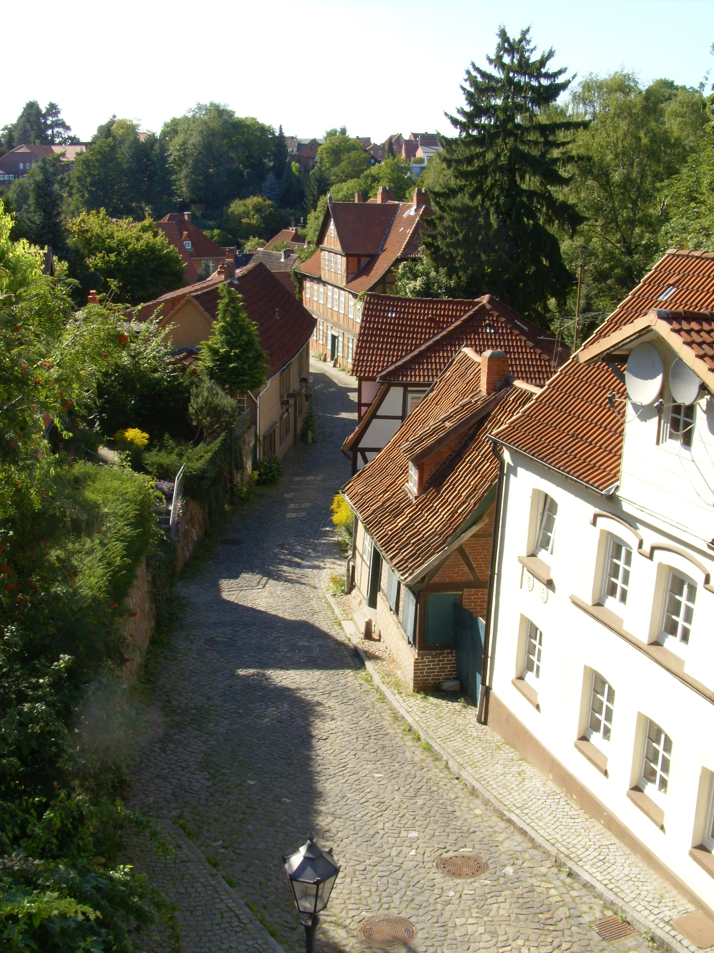 Lauenburg, Germany. Cityview.